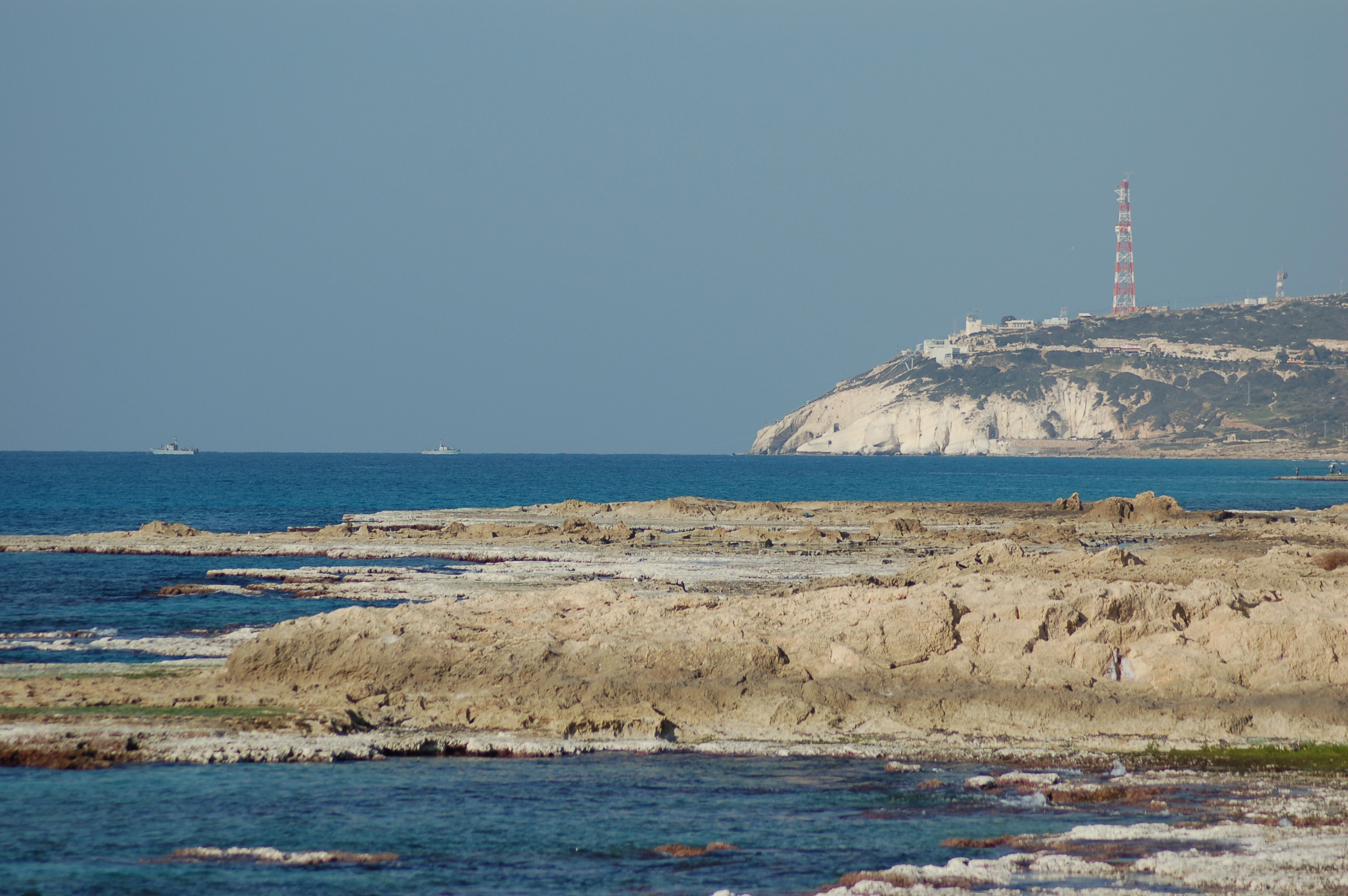 Rosh HaNikraAchziv Beach - Low Tide - 20 January 2008